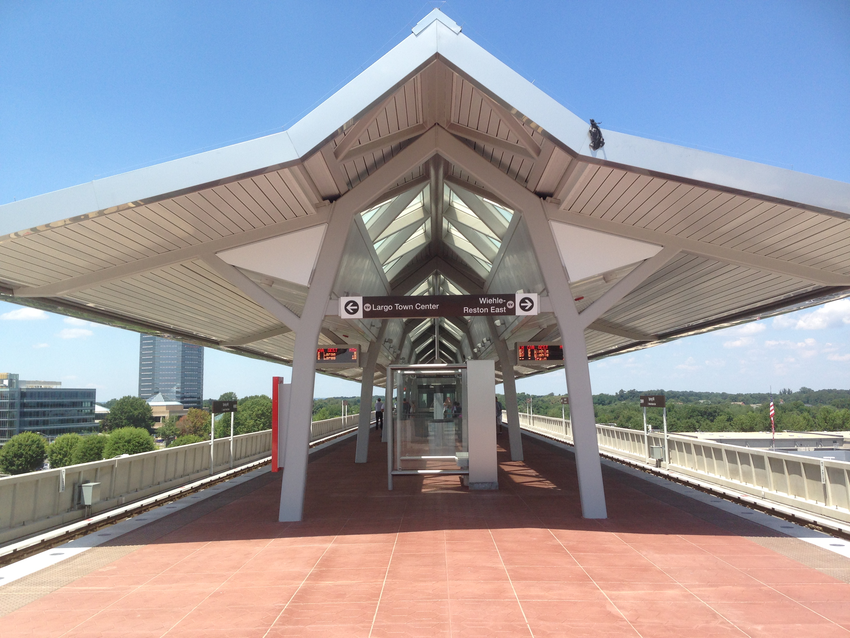 Platform of the Spring Hill WMATA station on its first day of operation